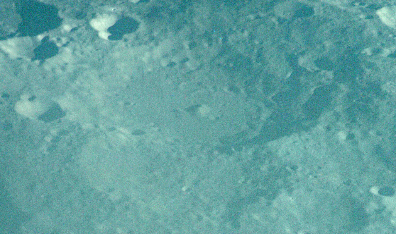 Oblique view of Beijerinck crater, on the far side of the moon, facing south. Brightness and contrast greatly adjusted from the dark original.